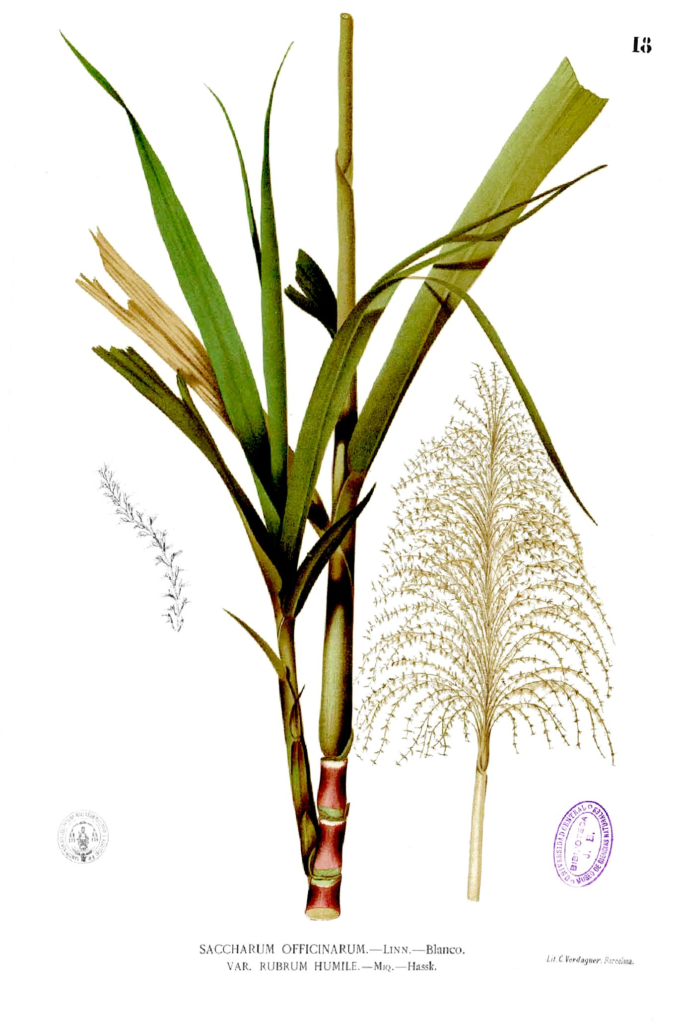 Plate from book